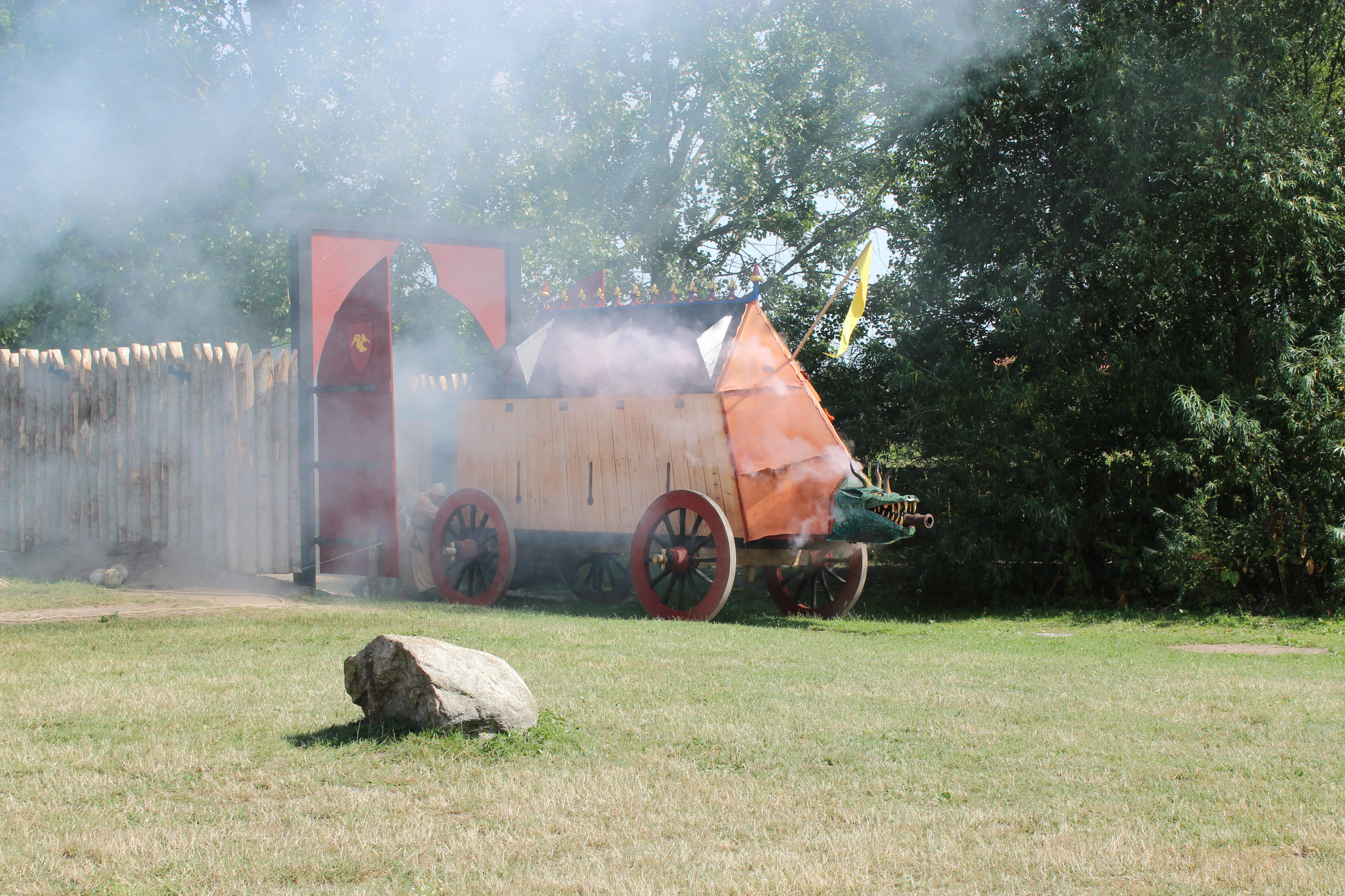 War wagon at Middealdercentret. Build from manuscripts from 15th century. World's first tank.